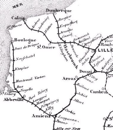 A crop from file:Cie_chemins_fer_Nord_1853_VBois.jpg showing the coastal railways